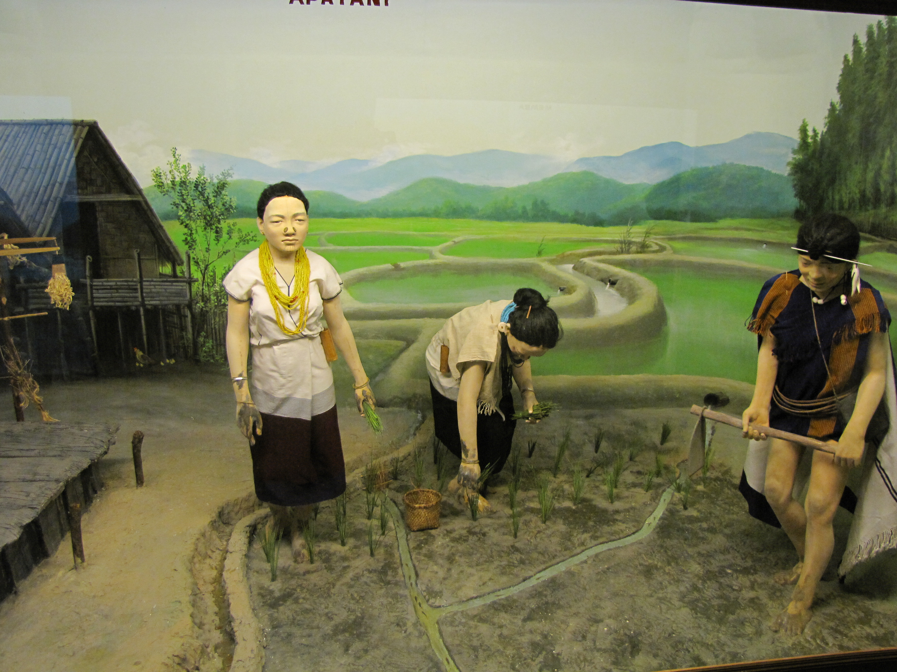 Diorama of Apatani tribe at Jawaharlal Nehru Museum, Itanagar, Arunachal Pradesh, India.